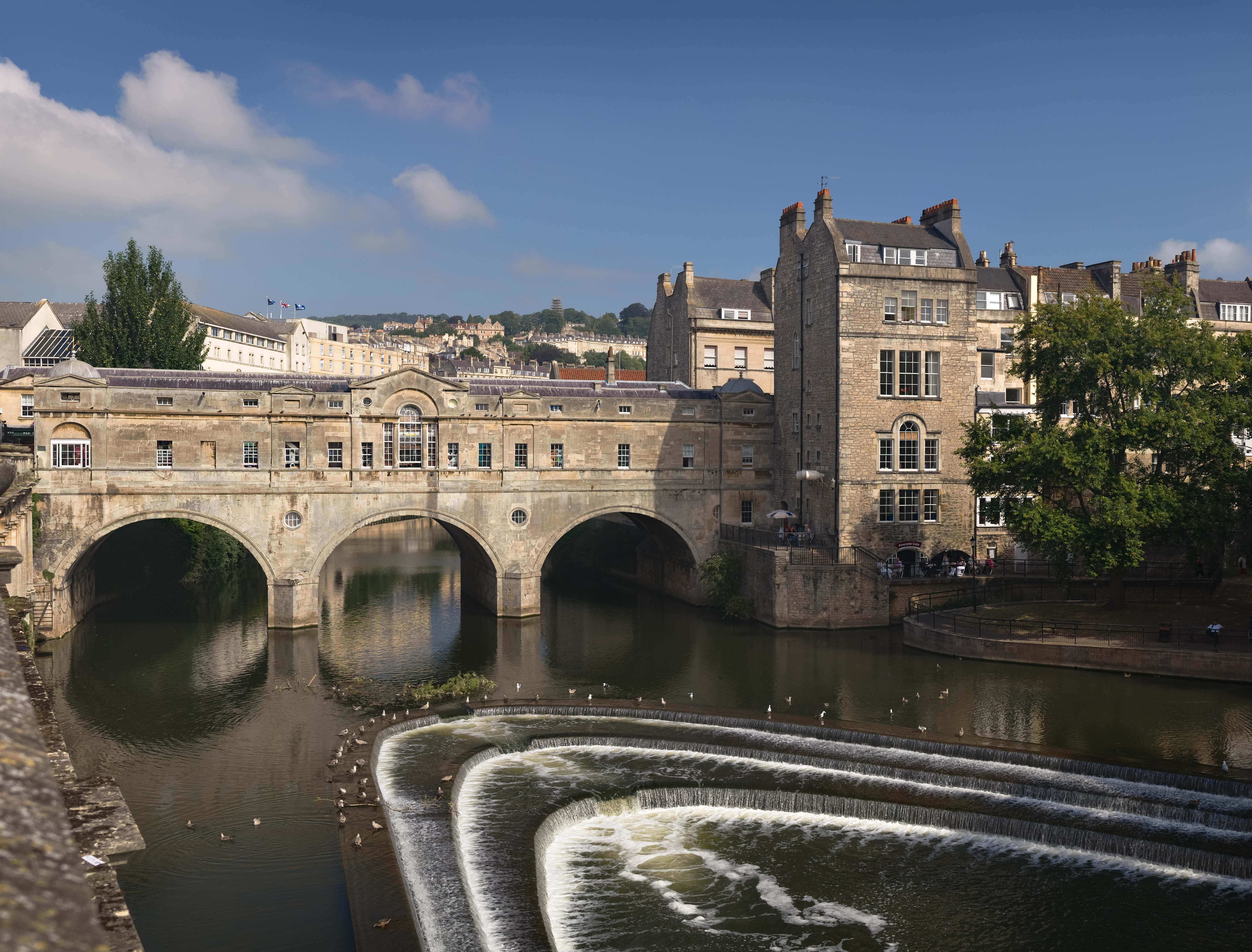 Pulteney bridge in Bath, view from south before noon